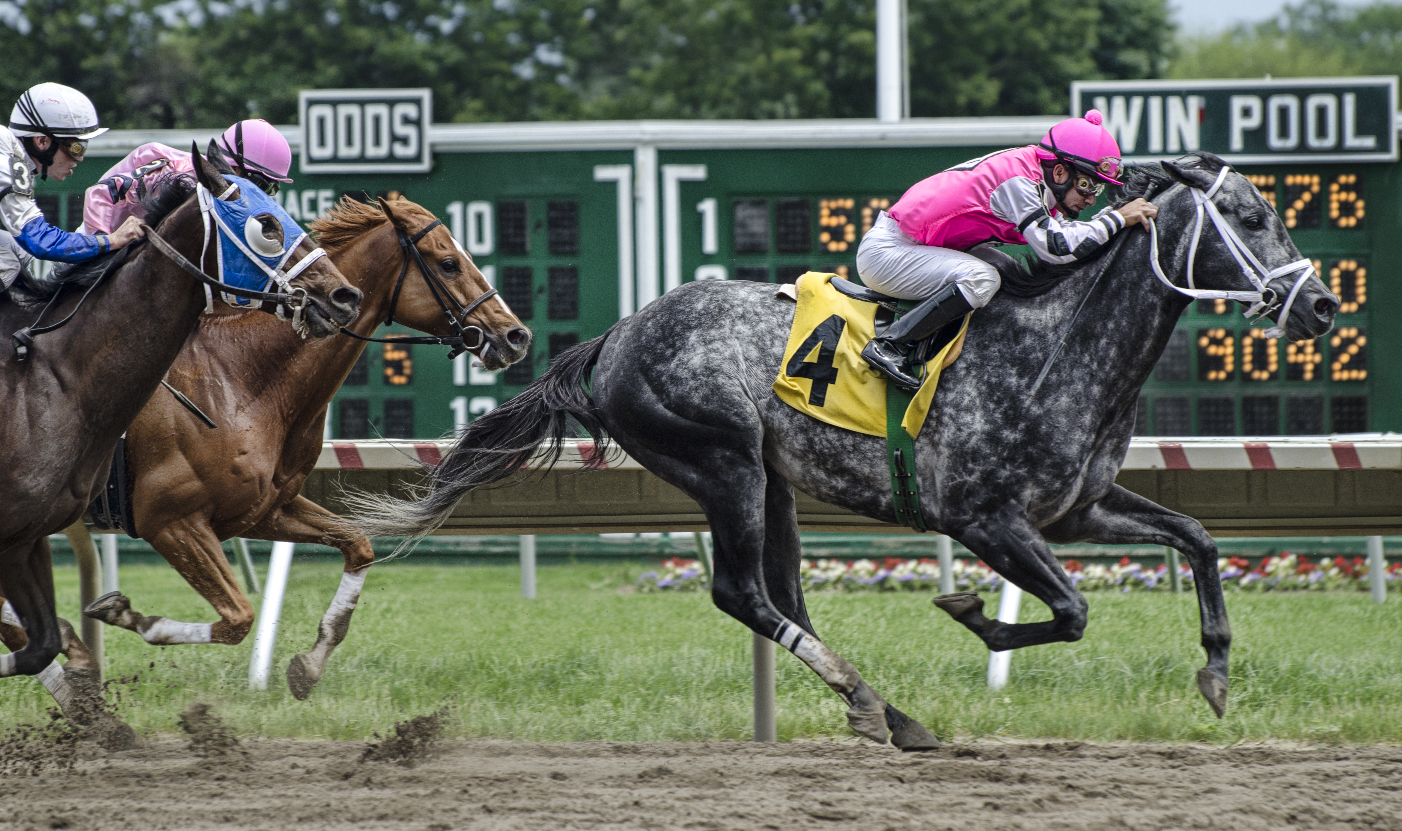 Armed Forces Day at Mommouth Racetrack in NJ on June 4, 2011. African Gold (Maria's Mon-Pember) won race 1, a claiming race for three-year-olds and upwards. Deputy Honor (#3) and Lion Under Oath (#2) follow.